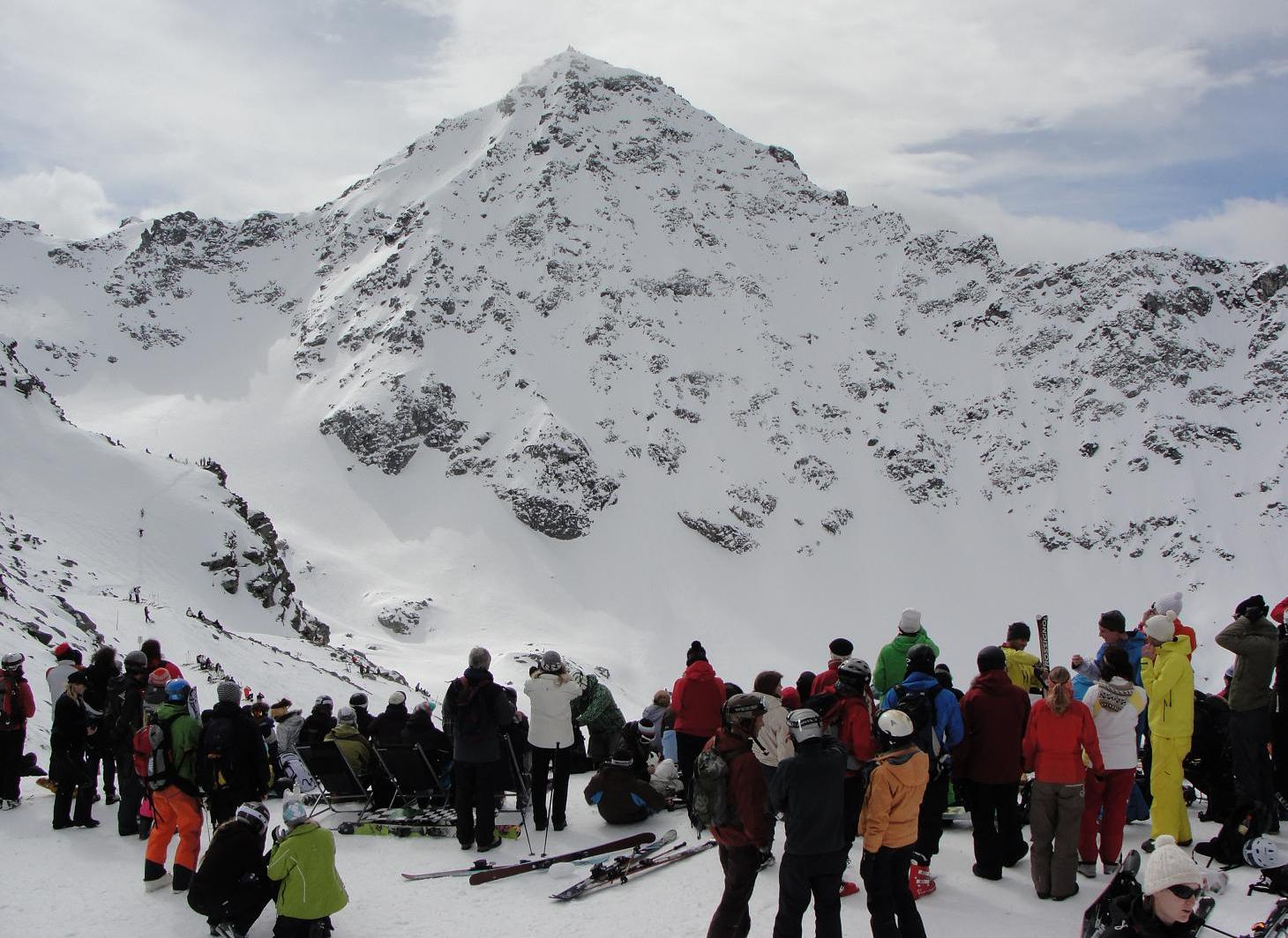 Mount Bec des Rosses and spectators. Freeride World Tour 2010.